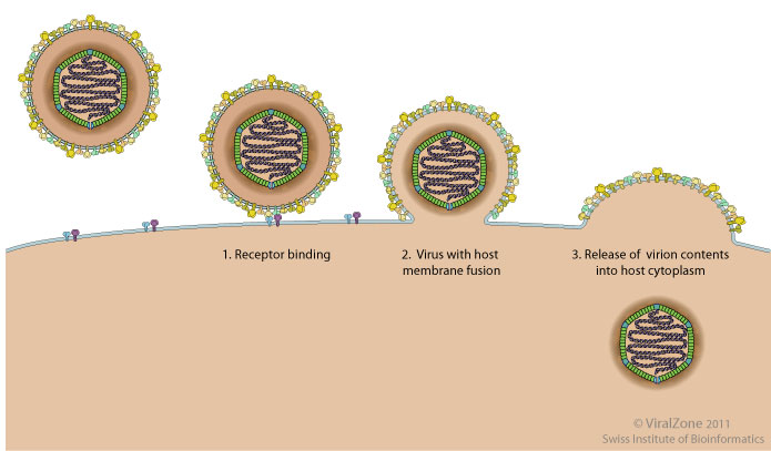 Sendai virus can directly fuse it membrane with cell plasma membrane without being internalized by endocytosis or macropinocytosis